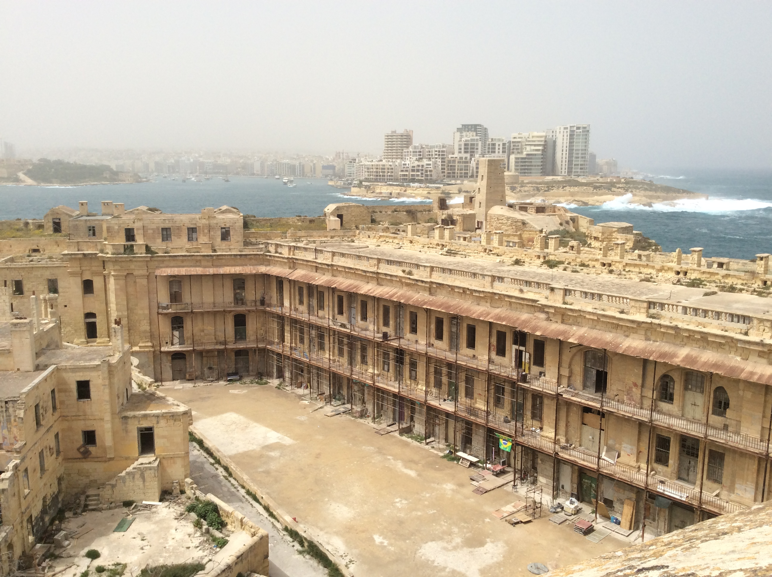 Fort Saint Elmo in 2018